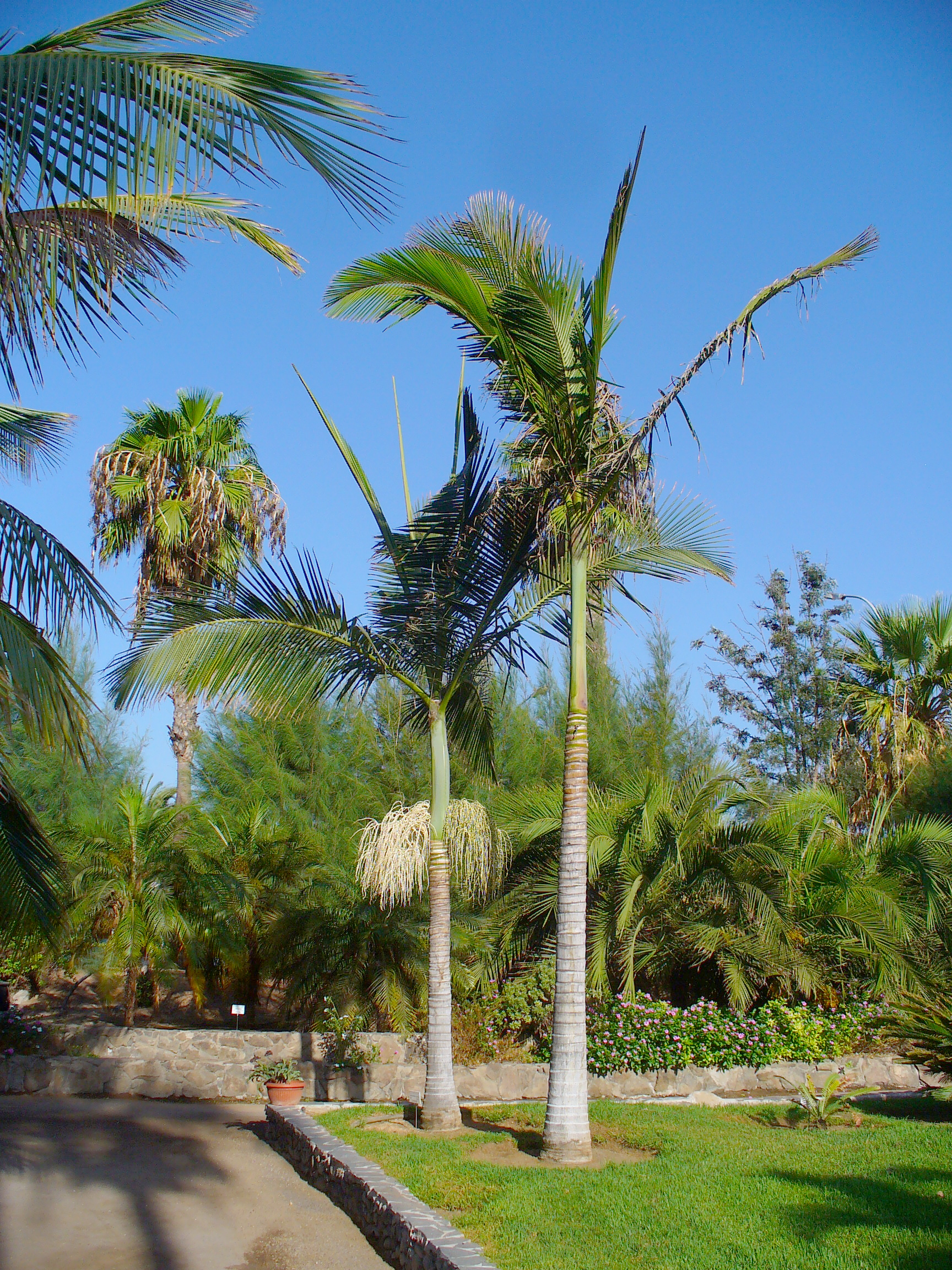 Alexandra palm, habitus; Botanical Garden Maspalomas, Gran Canaria, Canary Islands, Spain